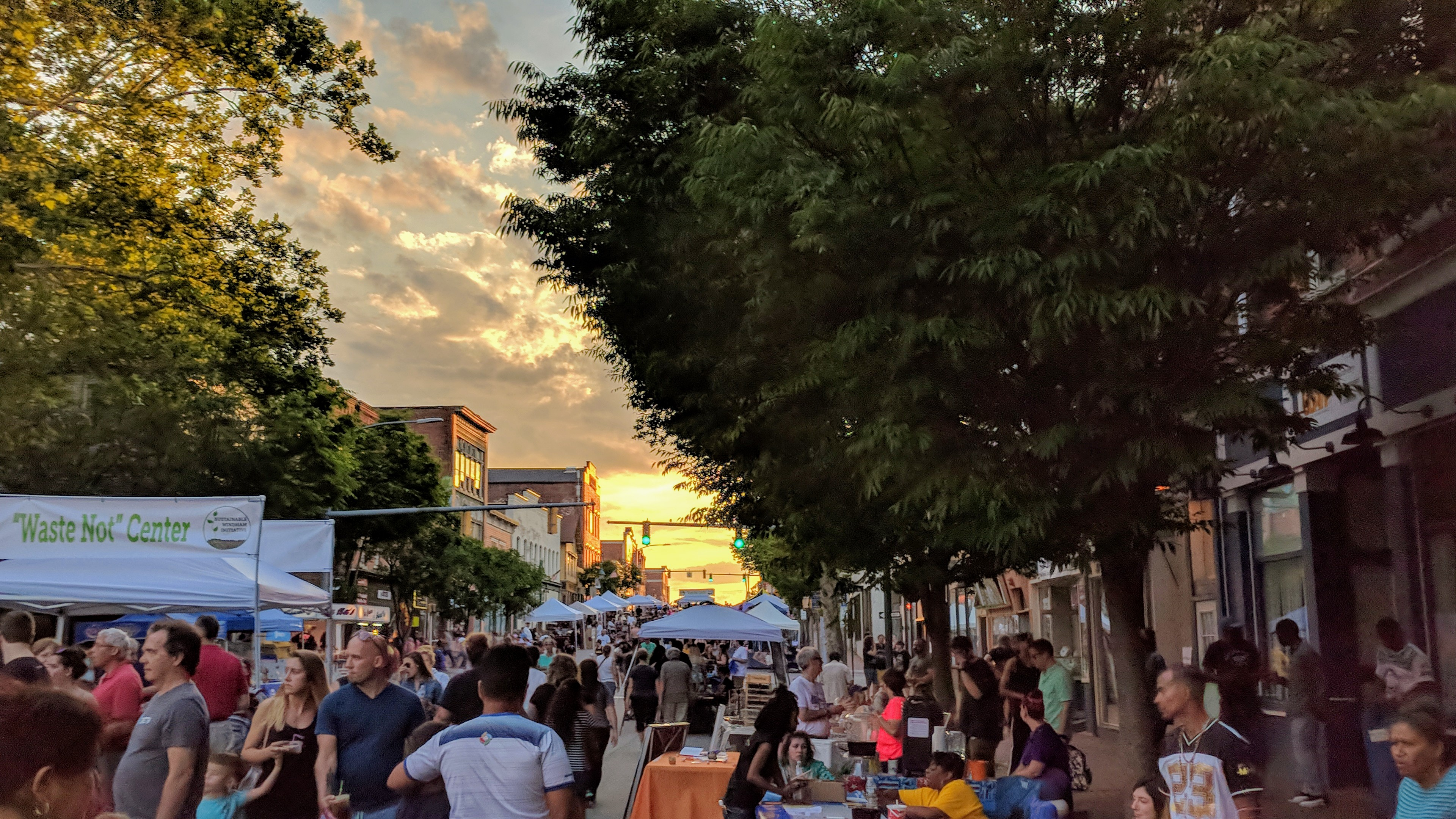 Downtown Willimantic, Connecticut during 3rd Thursday.